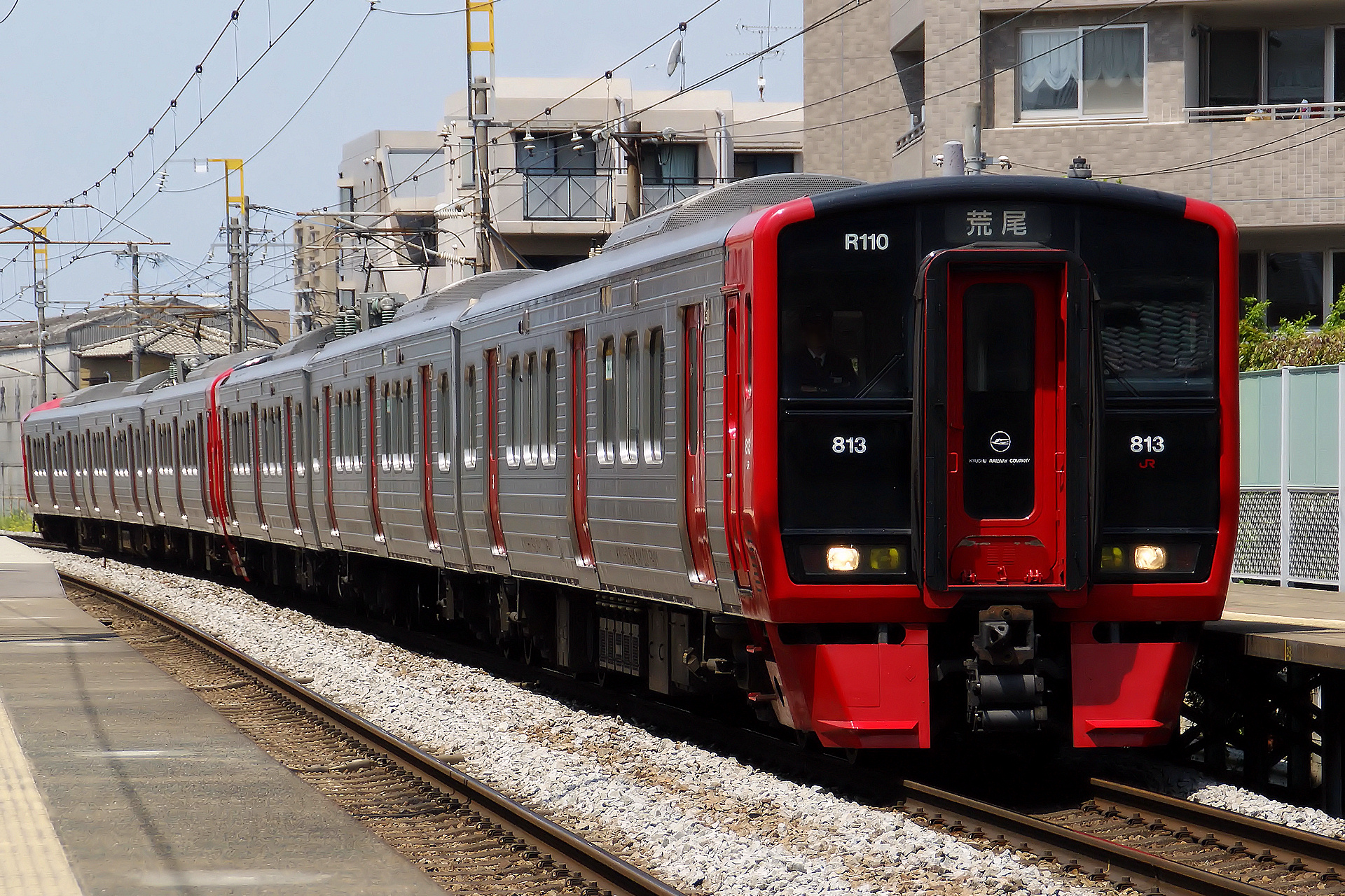 Two JR Kyushu 813 series EMU sets headed by 813-100 series set R110 approaching Sasabaru Station (Minami Ward, Fukuoka, Fukuoka Prefecture, Japan)